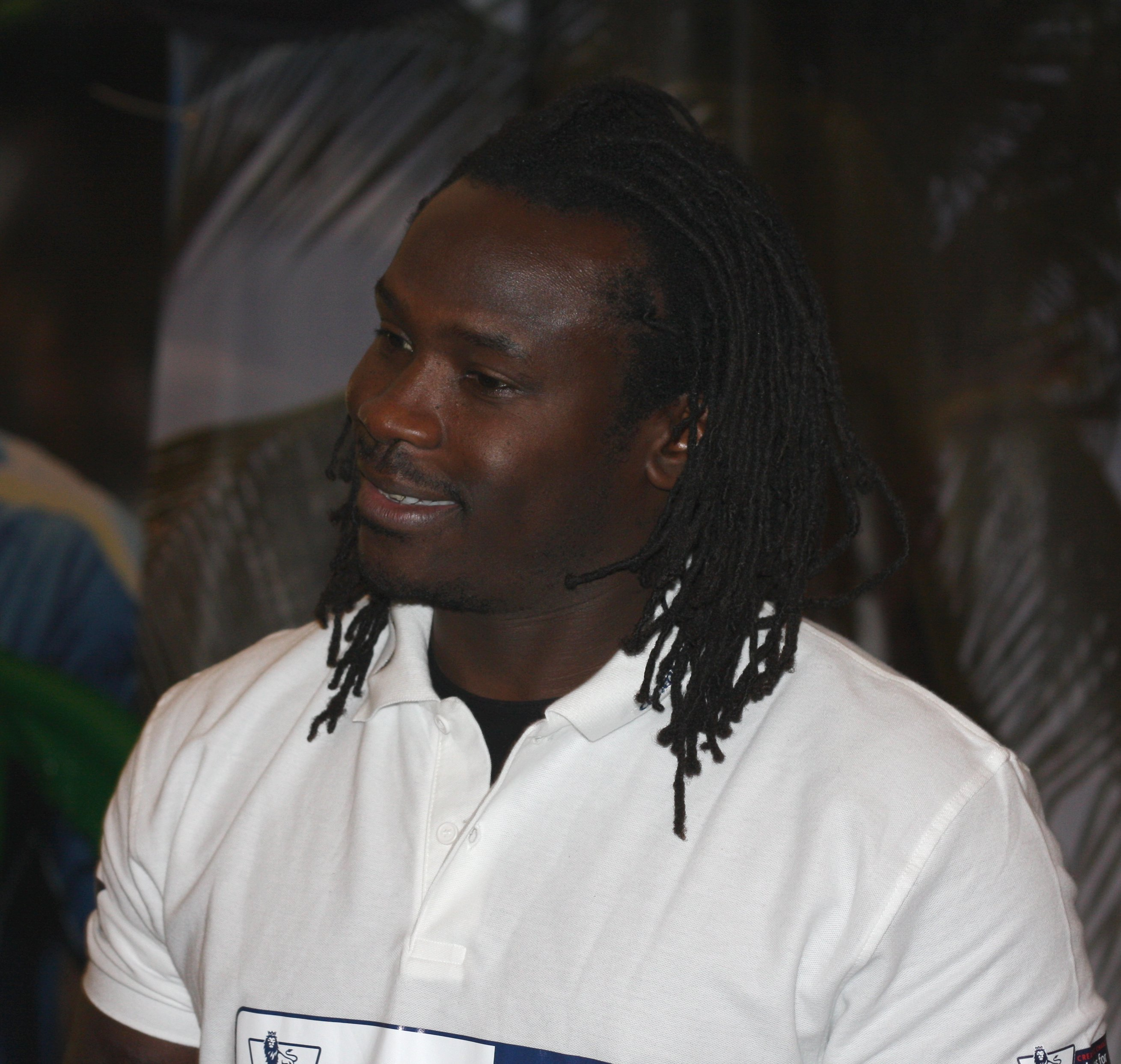 A picture of the English former footballer Linvoy Primus